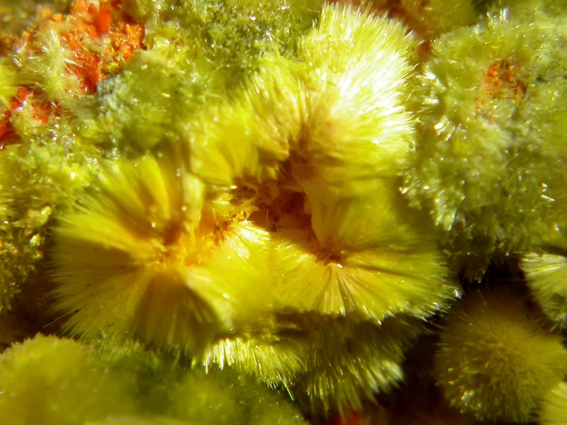 Lepersonnite-(Gd), Studtite, Curite, Uraninite Locality: Shinkolobwe Mine (Kasolo Mine), Shinkolobwe, Central area, Katanga Copper Crescent, Katanga (Shaba), Democratic Republic of Congo (Zaïre) (Locality at ) Size: 2.4 x 1.5 x 2 cm. Lepersonnite-(Gd) is a very rare REE-uranyl carbonate from Shinkolobwe. Here it is intergrown in the yellow Studtite clusters (surrounded by smaller Uranophane xls). The difference is obvious and visible under magnification where the Lepersonnite-(Gd) forms flat crystals while the Studtite forms needles. The orange mineral is Curite. The Shinkolobwe mine is closed since the late 1950’s and is the type locality for all three of these: Lepersonnite-(Gd), Studtite and Curite.